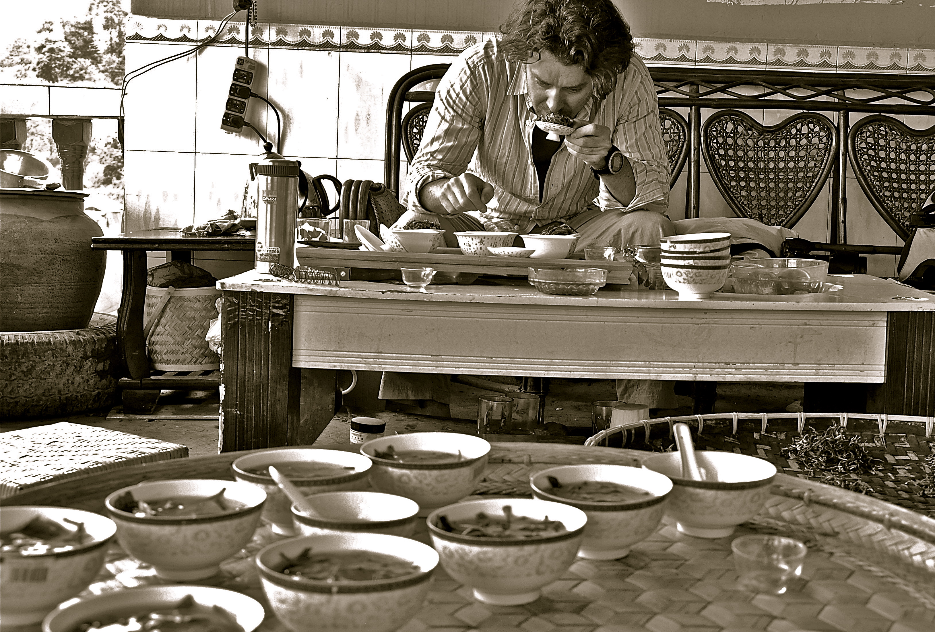 Jeff Fuchs testing teas in Xishuangbanna in southern Yunnan.